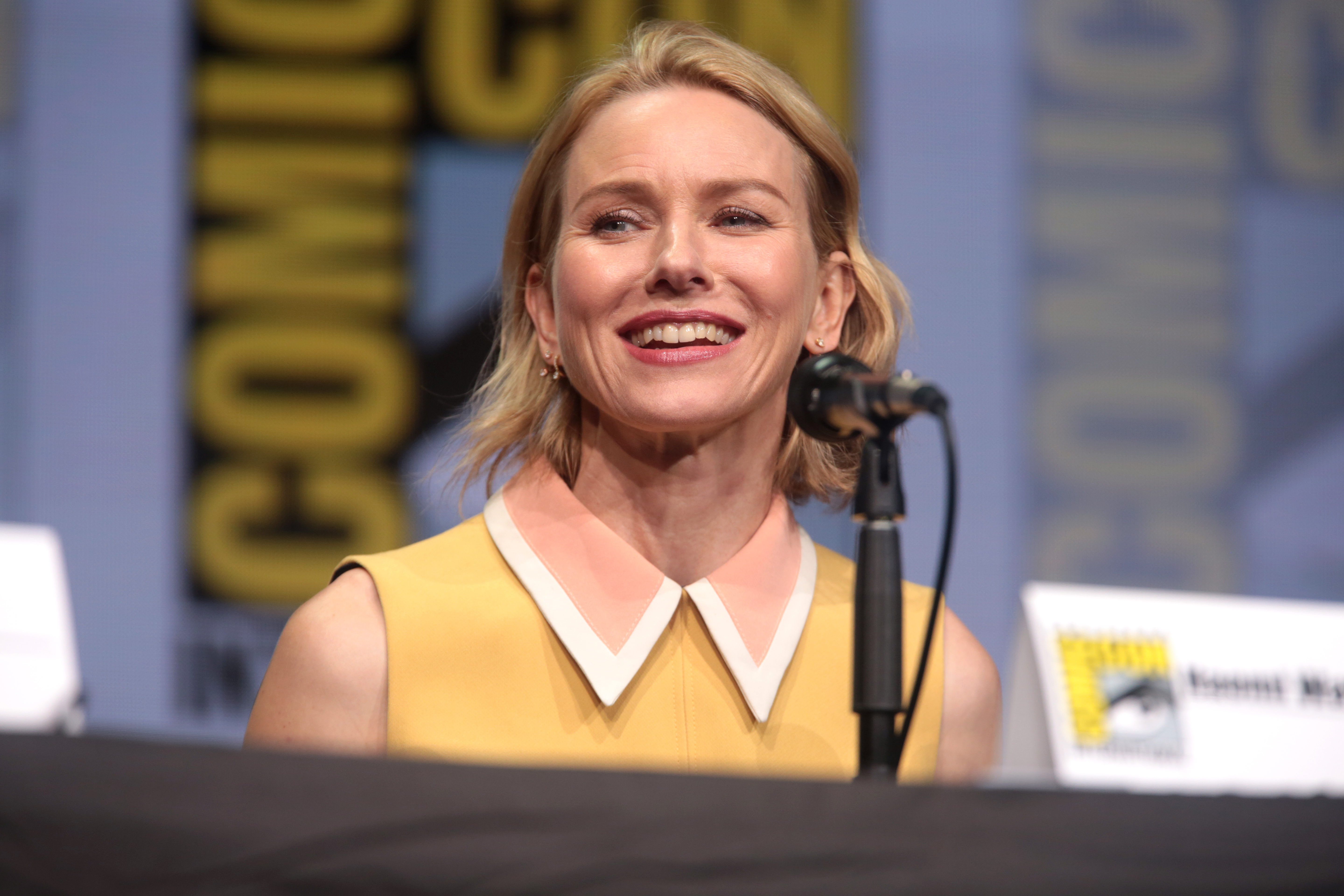 Naomi Watts speaking at the 2017 San Diego Comic Con International, for "Twin Peaks", at the San Diego Convention Center in San Diego, California.